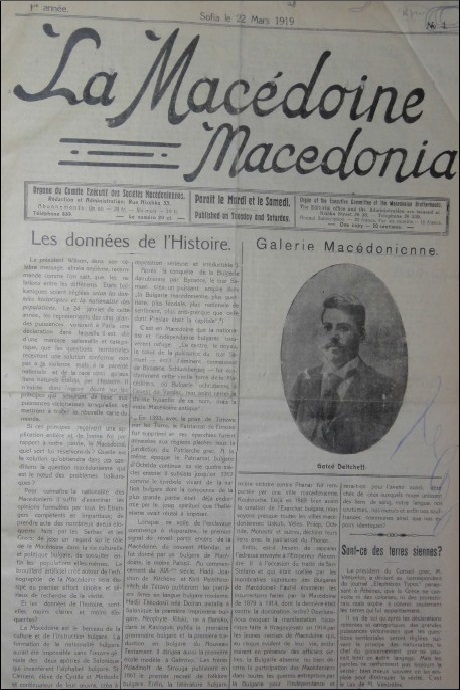 La Macédoine